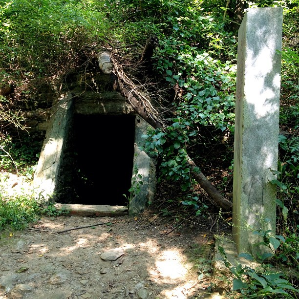 Entrance to Cave of Kelpius with marker nearby.